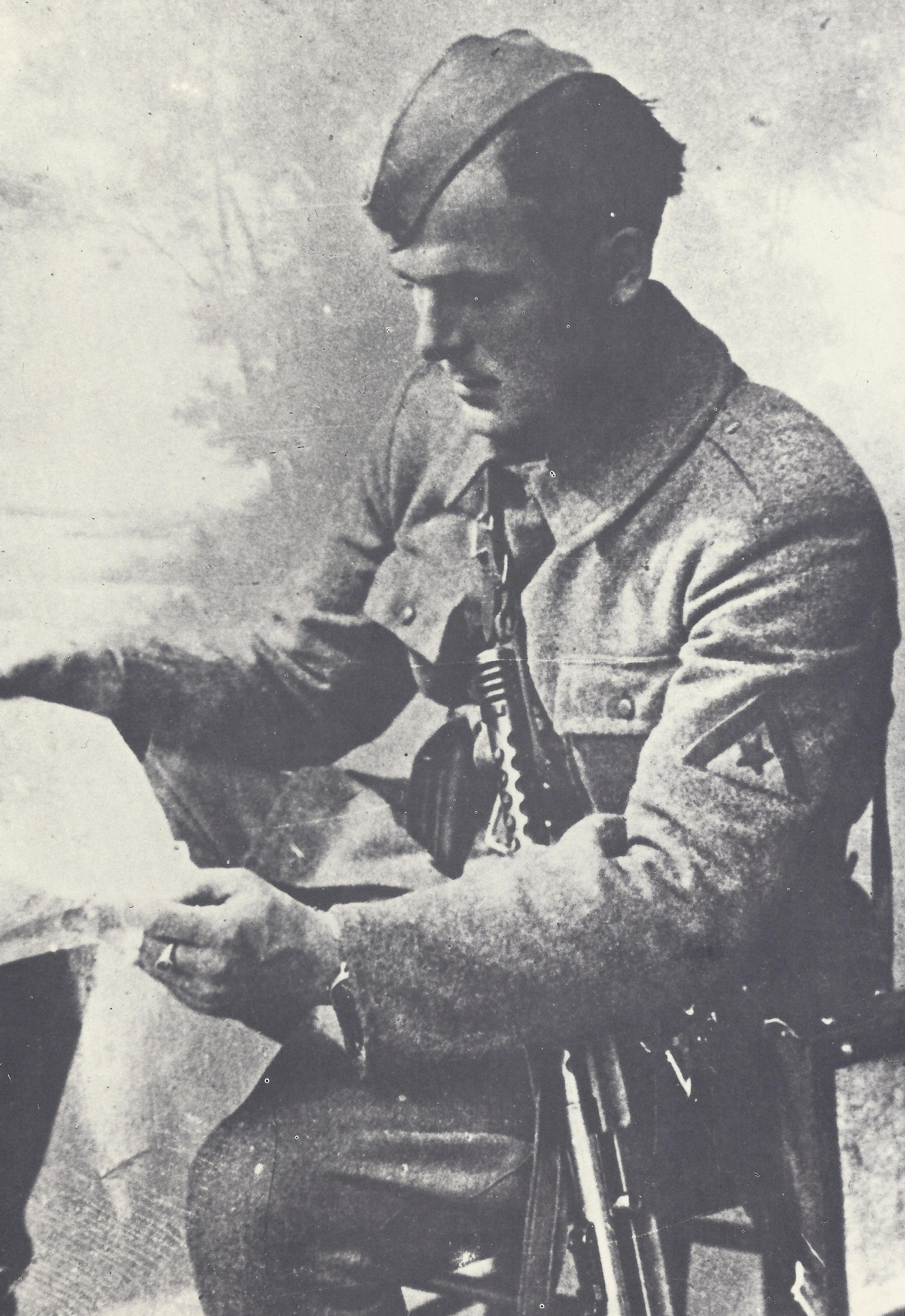 Ilija Badovinac (1917-1944), Slovene partisan